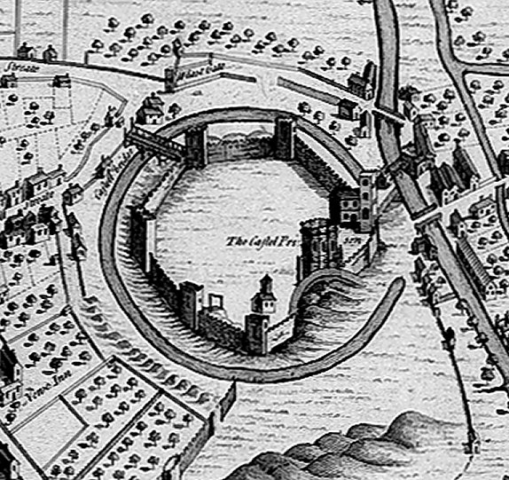 Bodleian Libraries, Agas map of Oxford, 1578 - detail of the Castle. From copy of the earliest map of Oxford by Ralph Agas, engraved by Augustine Ryther, in a reduced facsimile engraved by R. Whittlesey in 1728.